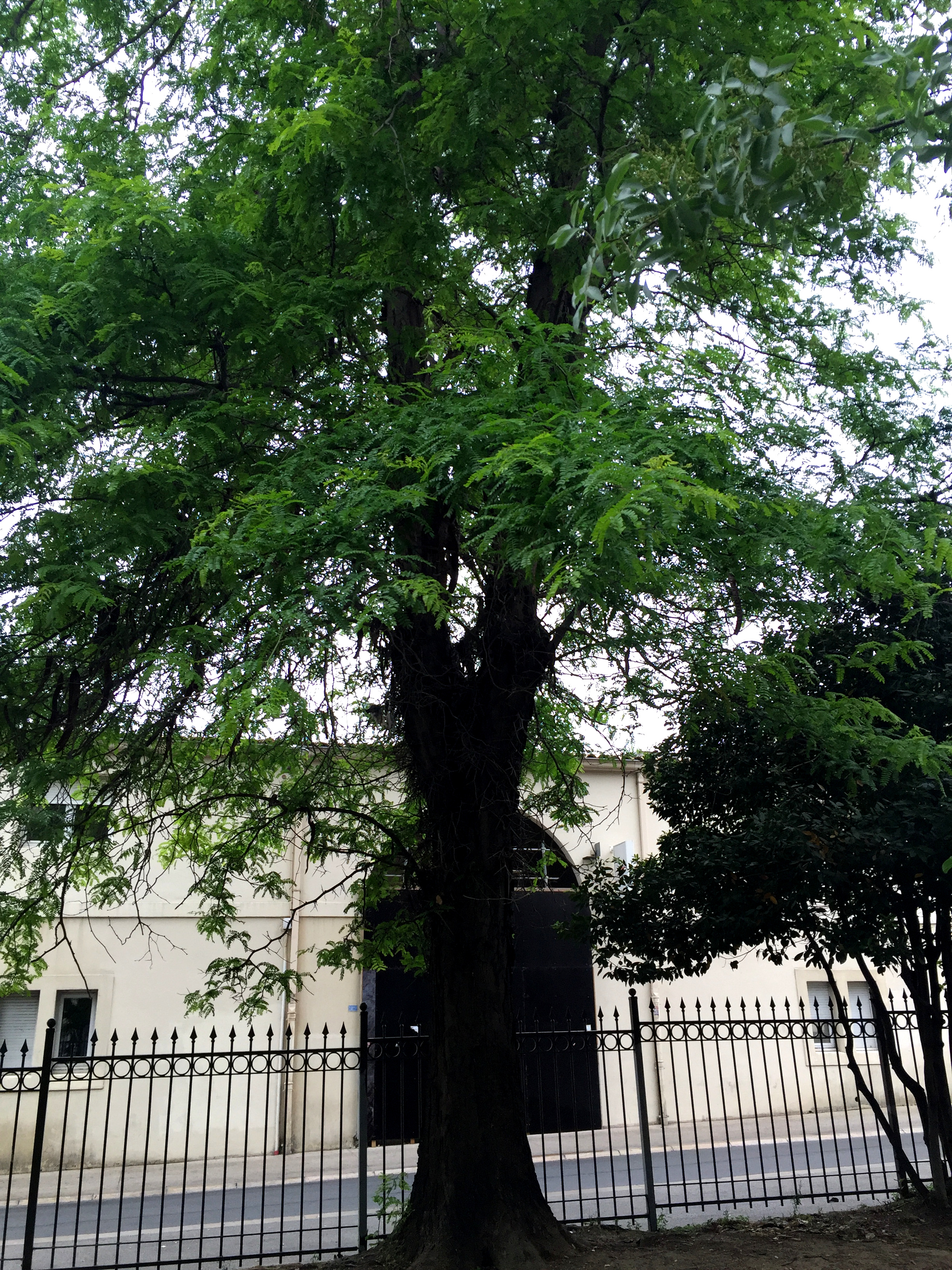 " Gleditsia triacanthos (L., 1753) - Honey locust, thorny locust " of the square Planchon at Montpellier (Hérault).